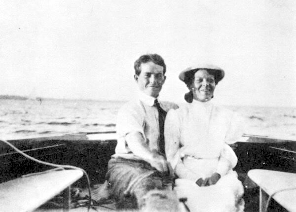 Dr. and Mrs. Thomas N. Hepburn on honeymoon, summer/fall 1905.